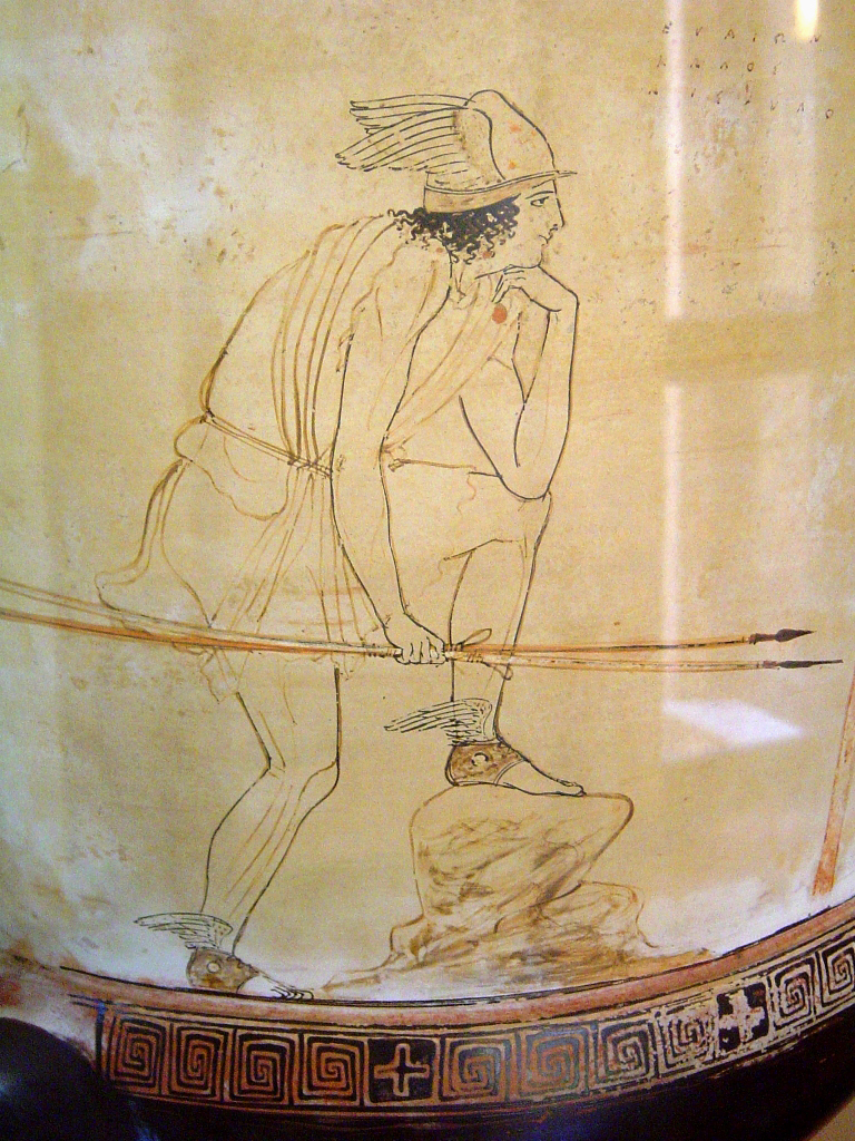 Portrait of Greek actor Euiaon as Perseus with winged cap and boots: inscription: “Euaion kalos Aiskhylo” (“Euaion son of Eschylus is beautiful”). Side A from an Attic white-ground calyx-krater attributed to the Phiale Painter by J.D. Beazley, ca. 430 BC, Agrigento, Museo Archeologico regionale (AG7). Cf. Beazley, ARV2 1579, Paralipomena 440.